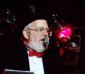 Dr. Demento at B.B. King Blues Club & Grill in New York, NY on August 15, 2004. Photo by David Rossi User:Elvis9227